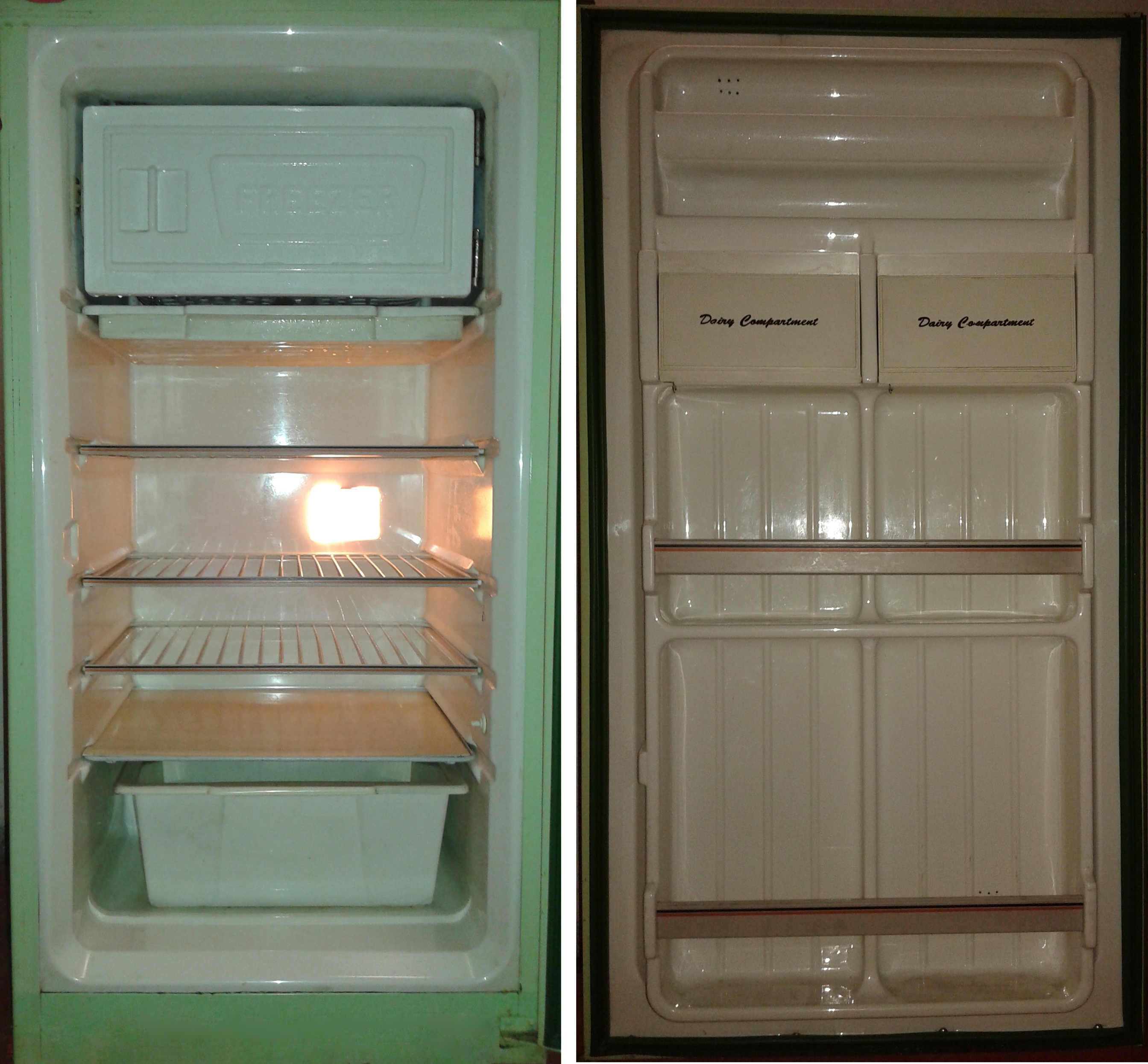 Photograph of an Interior of an old Preserved Sisil Refrigerator (One of the Models Released Under the Original Sisil Brand 1963-1994)